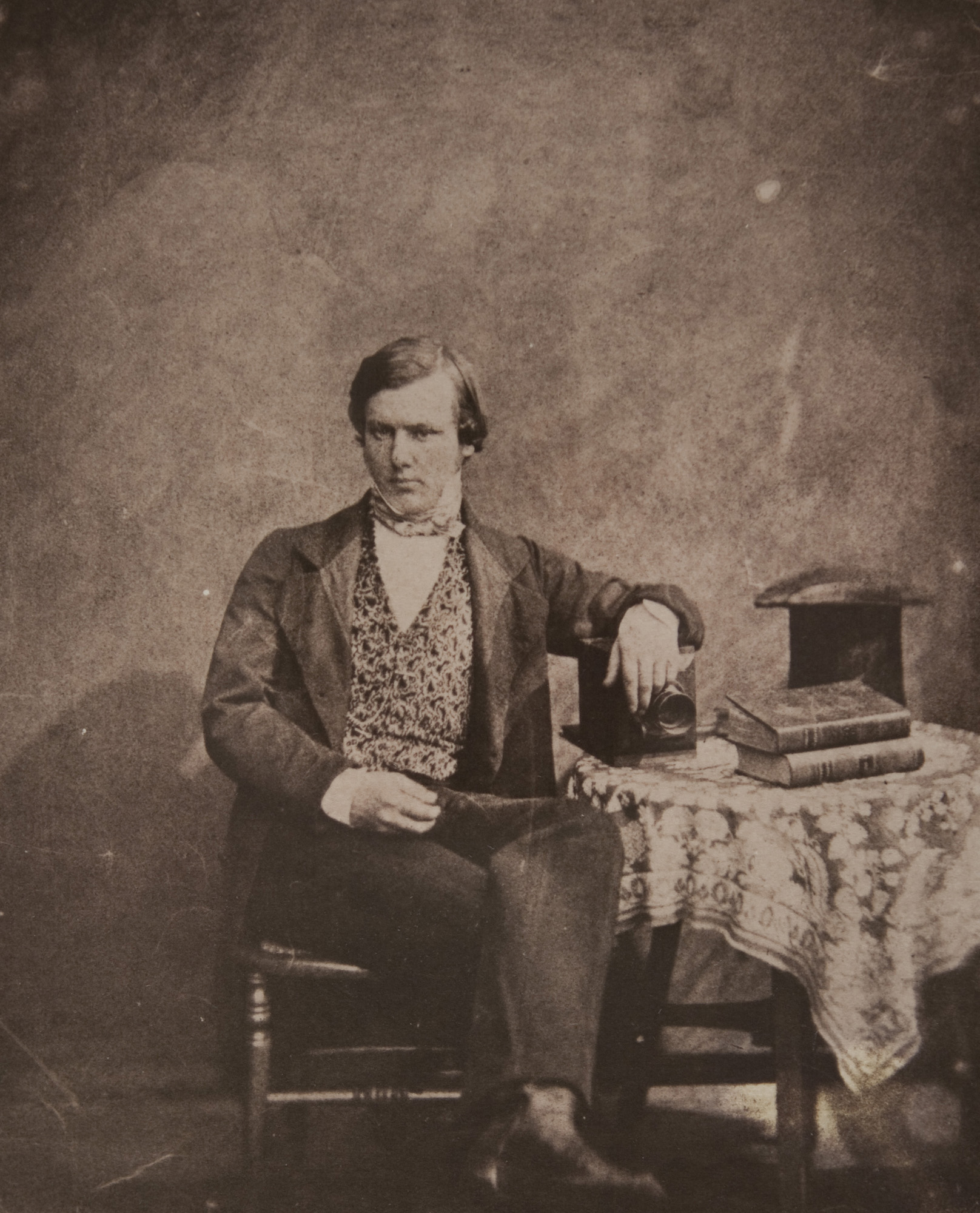 Portrait of Neville Story-Maskelyne Artist: William Henry Fox Talbot Picture taken: 1844-1846 Where: Claudet's, Regent Street, London